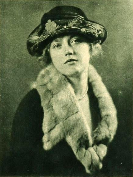 Actress Marion Davies, pages 40-41 of the November 1919 Shadowland.